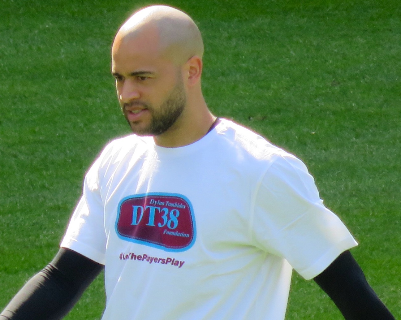 West Ham United goalkeeper Darren Randolph warming up before their Premier League game against Crystal Palace at the Boleyn Ground.